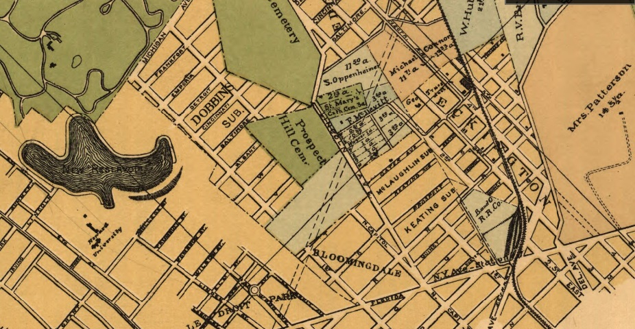 Map of Prospect Hill Cemetery in Washington, D.C., in the United States in 1890. From a map of real estate near and owned by the Metropolitan Branch of the Baltimore and Ohio Railroad Company and pubished by by Fava Naeff & Co. in 1890.